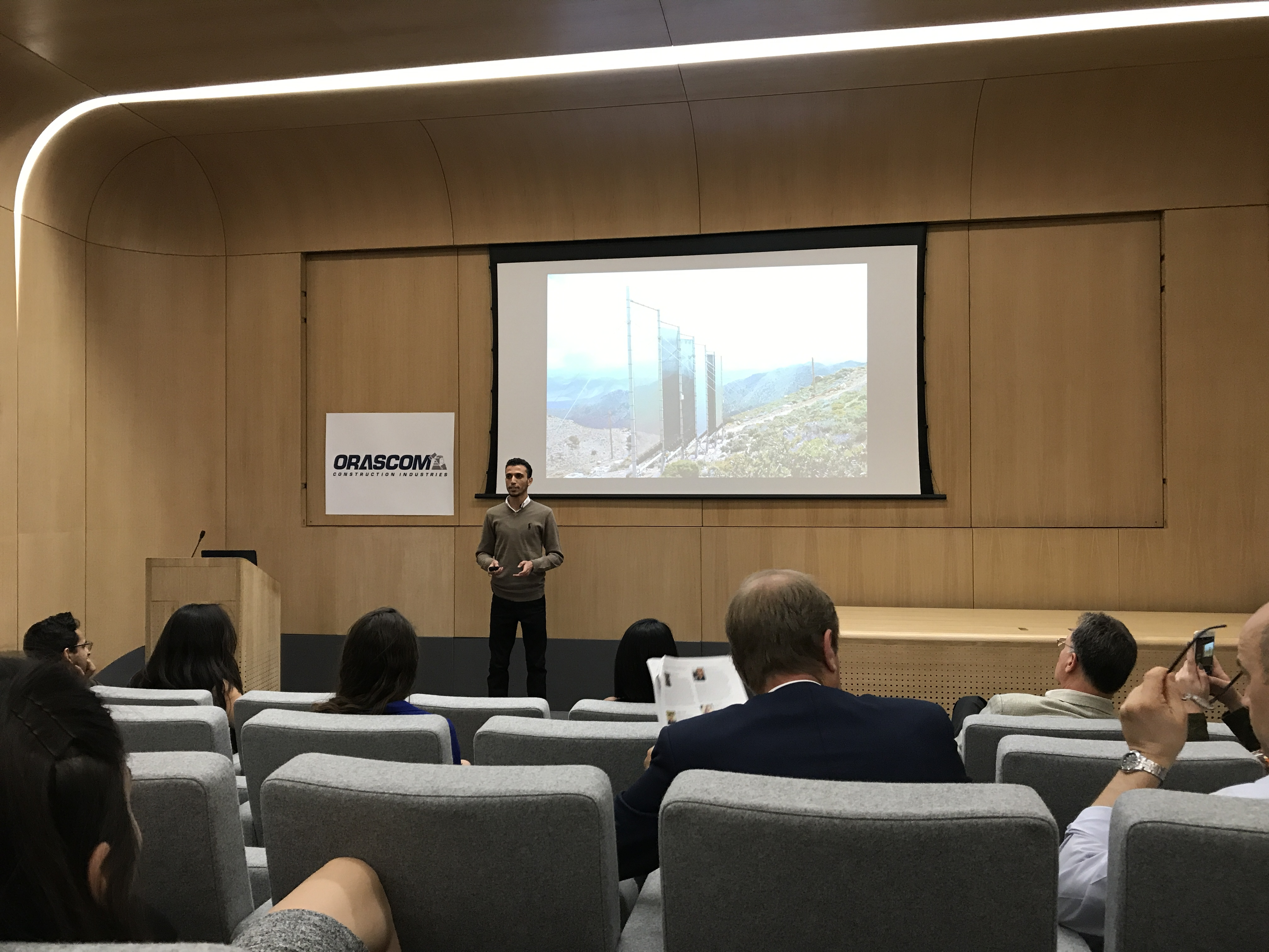 Mahdi Lafram talking about Dar Si Hmad at Oxford University